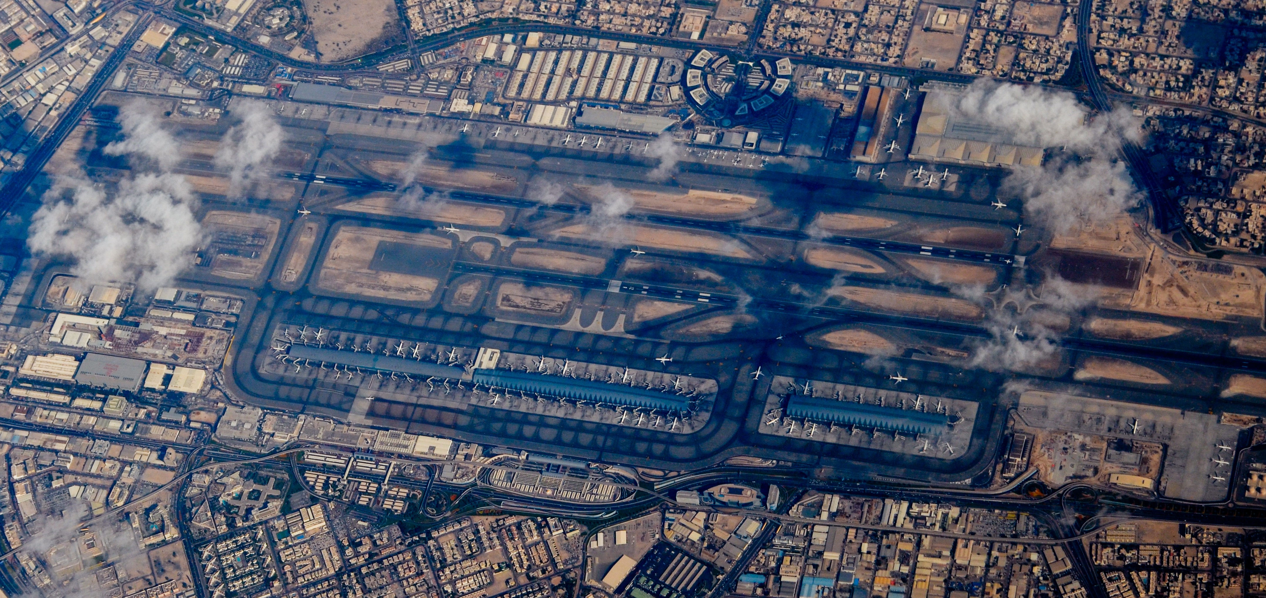 An aerial view of Dubai International Airport.